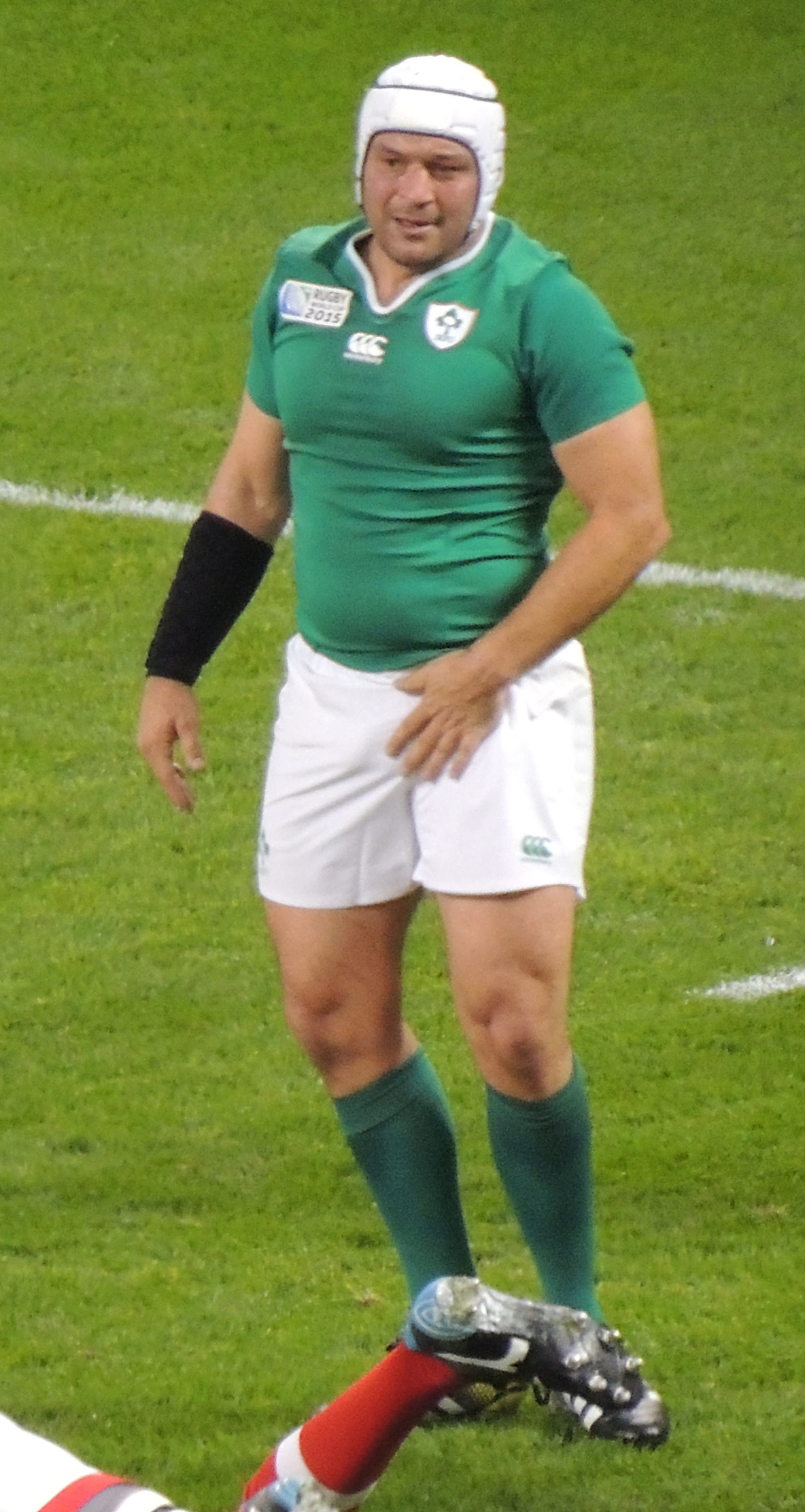 Irish rugby union player Rory Best playing in 2015 Rugby World Cup game Ireland vs Canada at Millennium Stadium in Cardiff.